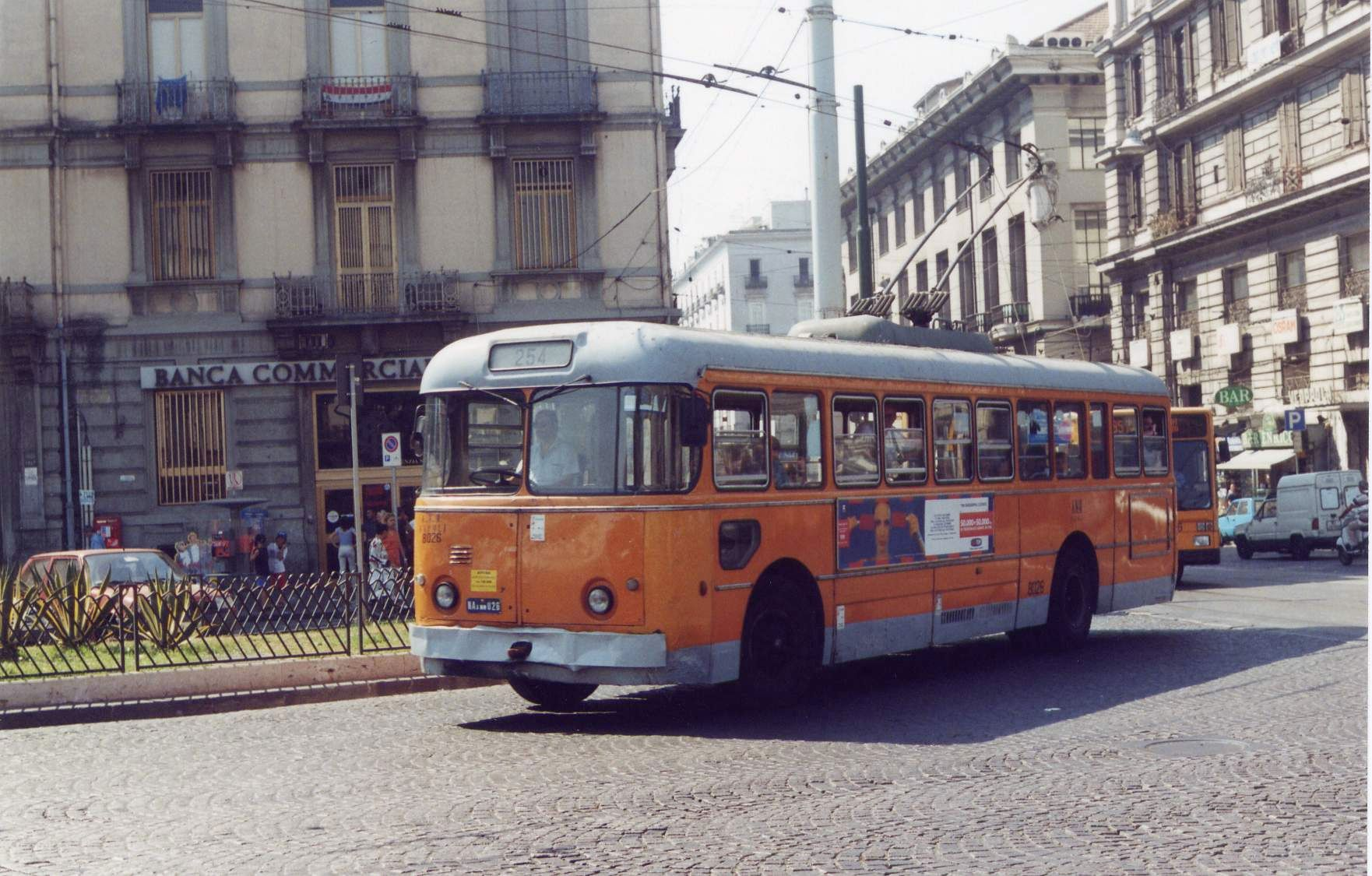 1961 Alfa Romeo 1000F trolleybus No. 8026 of the Naples ANM trolleybus system in central Naples, turning into Piazza Garibaldi from northbound Corso Garibaldi, in 2000. ANM's last Alfa Romeo trolleybuses were retired at the beginning of March 2001.